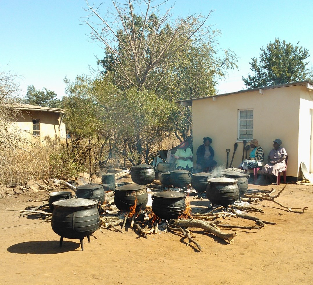 Poto; 3-legged cast iron pot used for cooking traditional Tswana food over an open fire in Botswana. This is an image of food from Botswana